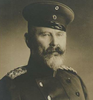 King Wilhelm II of Württemberg